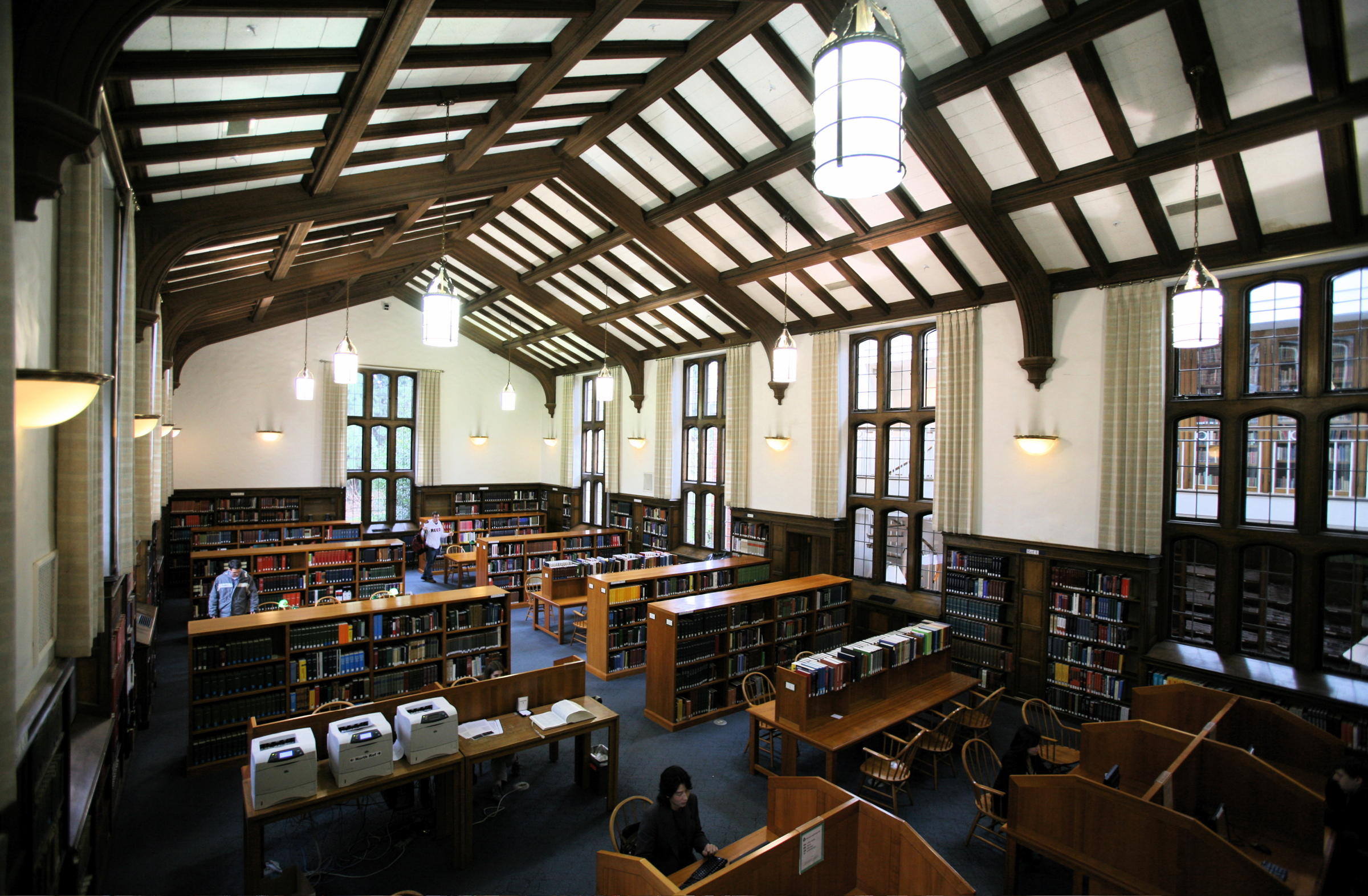 The reading room in Hauser Memorial Library on the campus of Reed College.